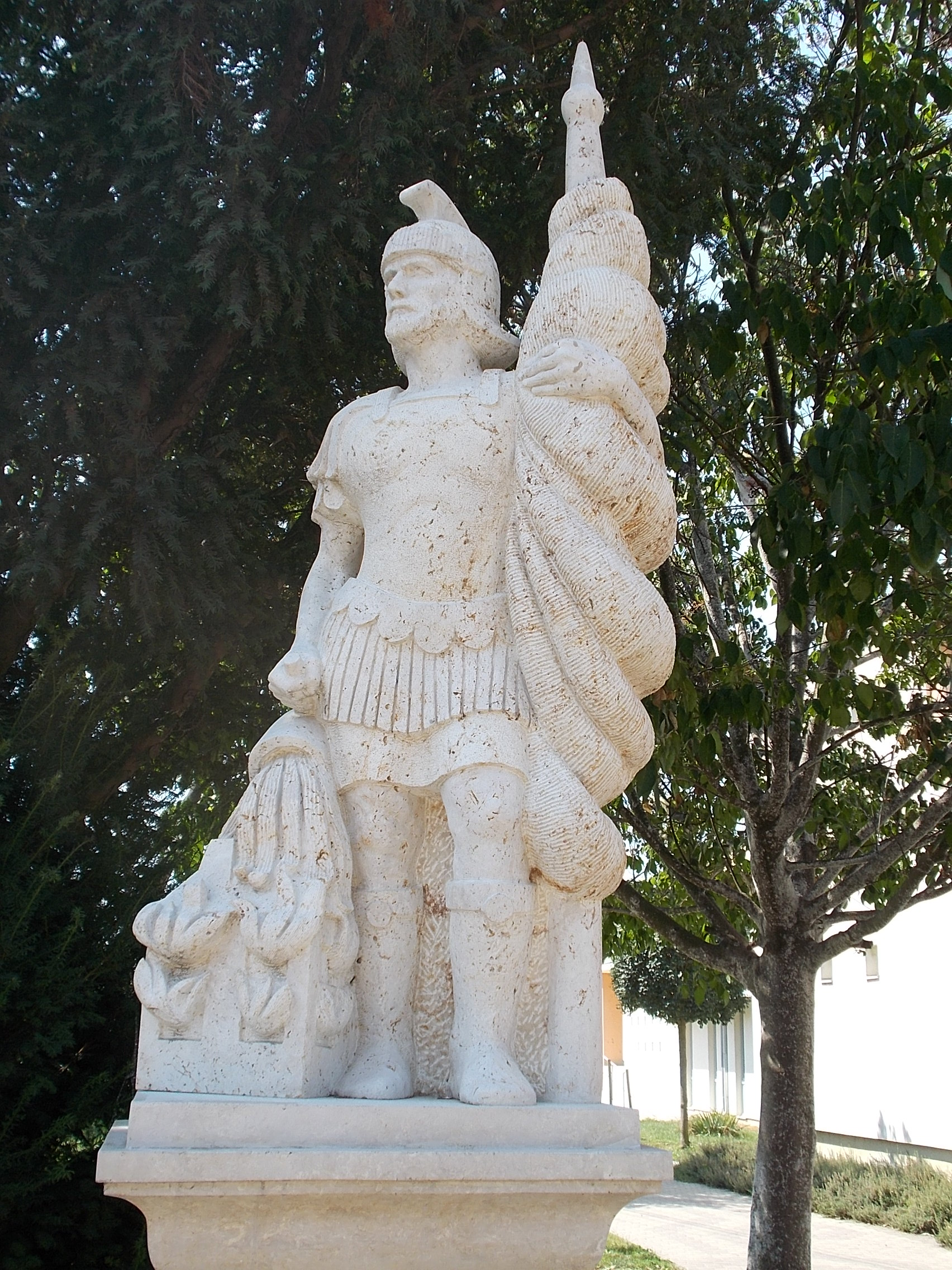 Saint Florian statue in Tamási is a Classic Anniversary limestone statue. András Kontur work, 2014. - Szabadság Street, Tamási, Tolna County, Hungary.